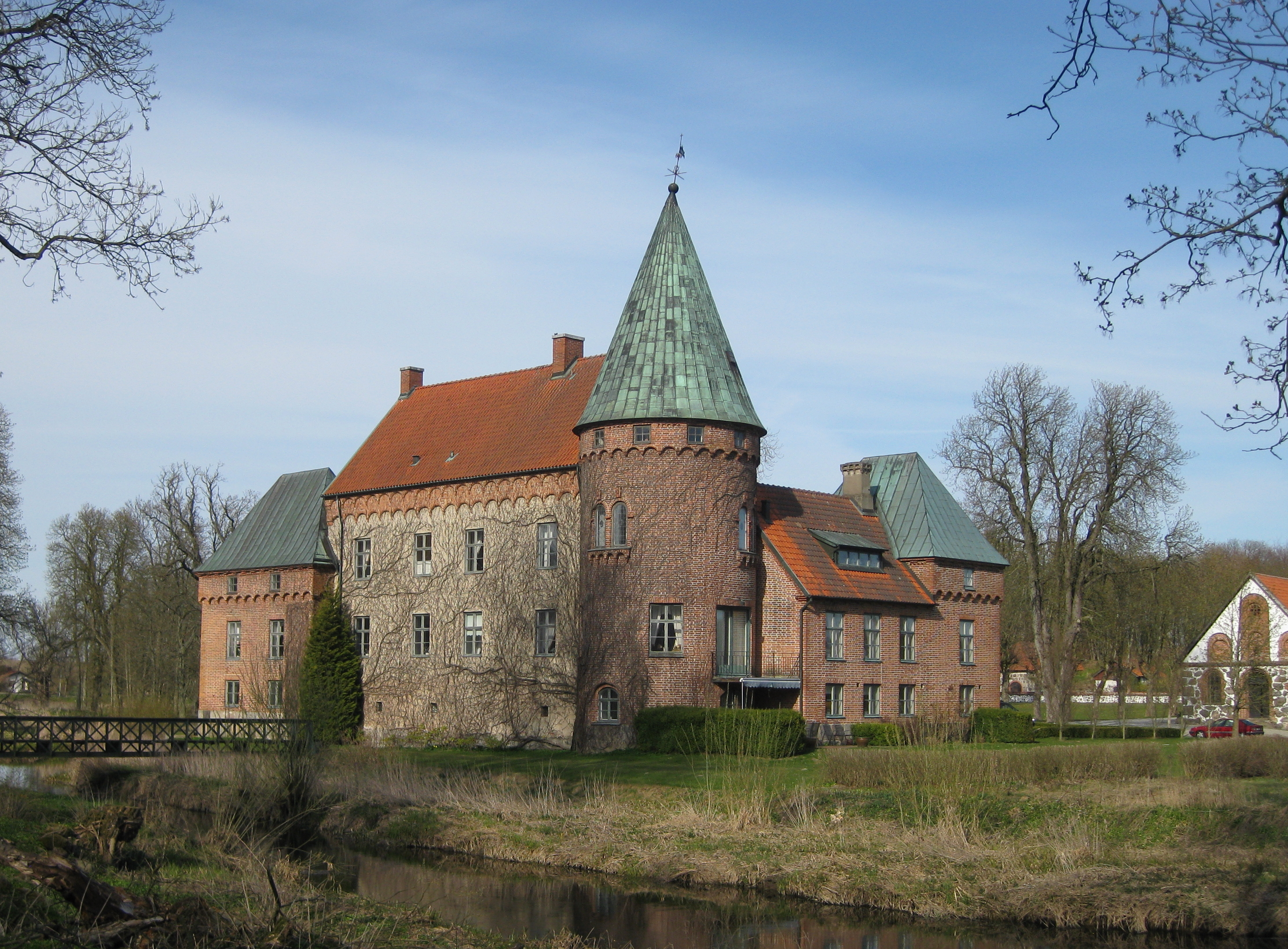 Örtofta castle in Skåne, Sweden